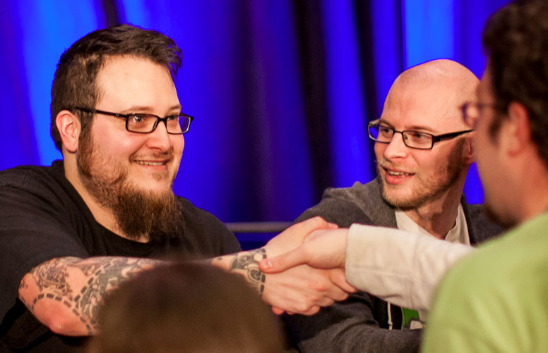 Cropped version of File:Team Meat at 2012 GDC Indie Game The Movie panel (6814309570) (2).jpg